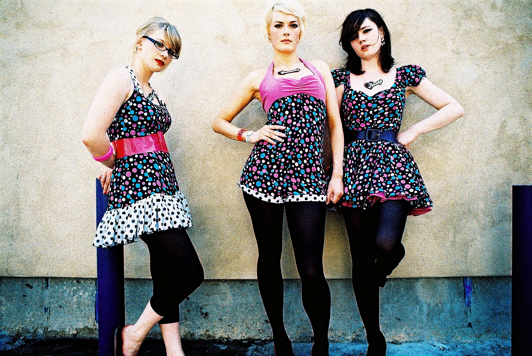 the Pipettes @ South by South West photographed by Kris Krug (